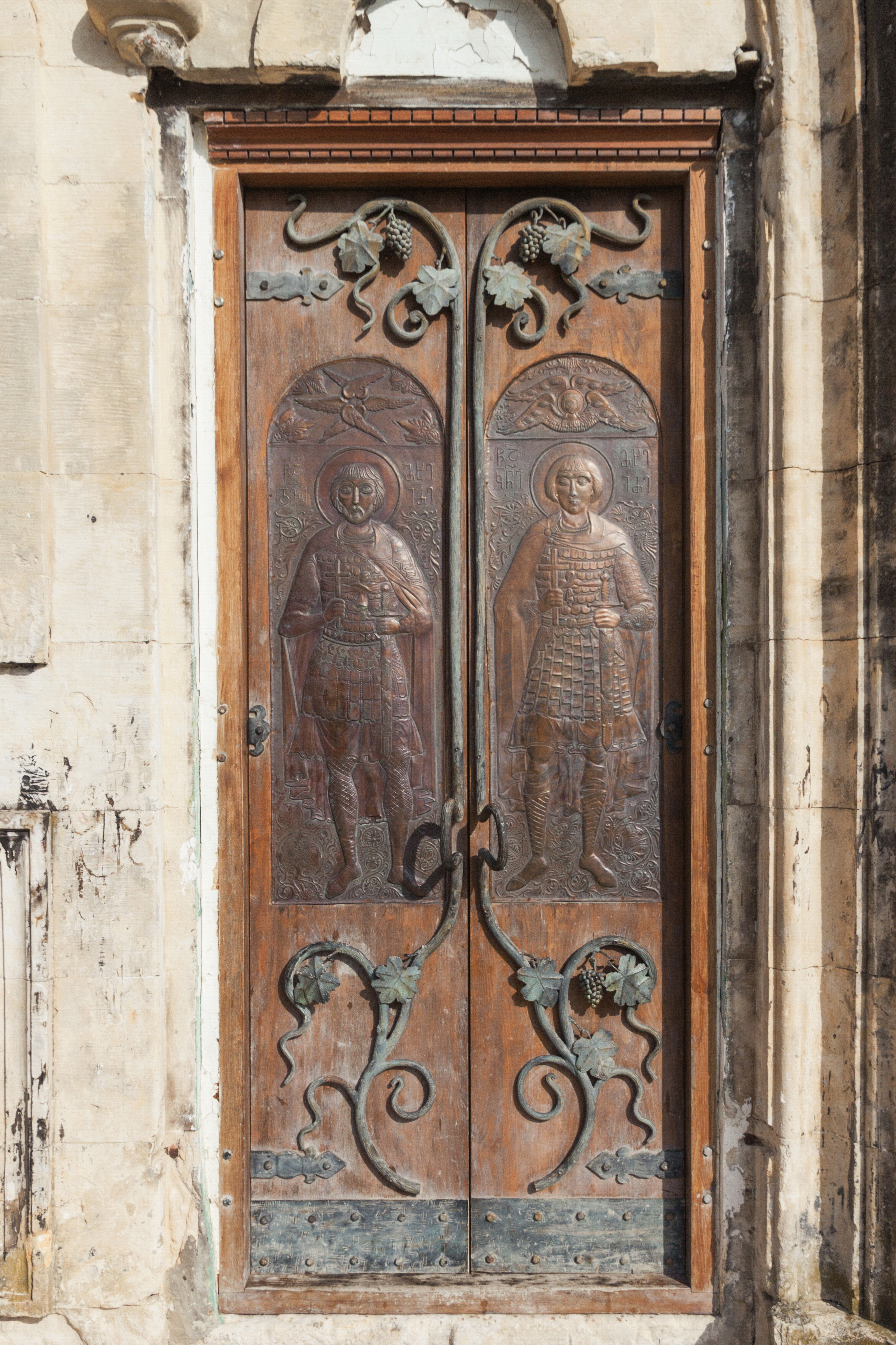 Decorated door. Motsameta monastery - church. Motsameta, Tkibuli Municipality, Imereti, Georgia.